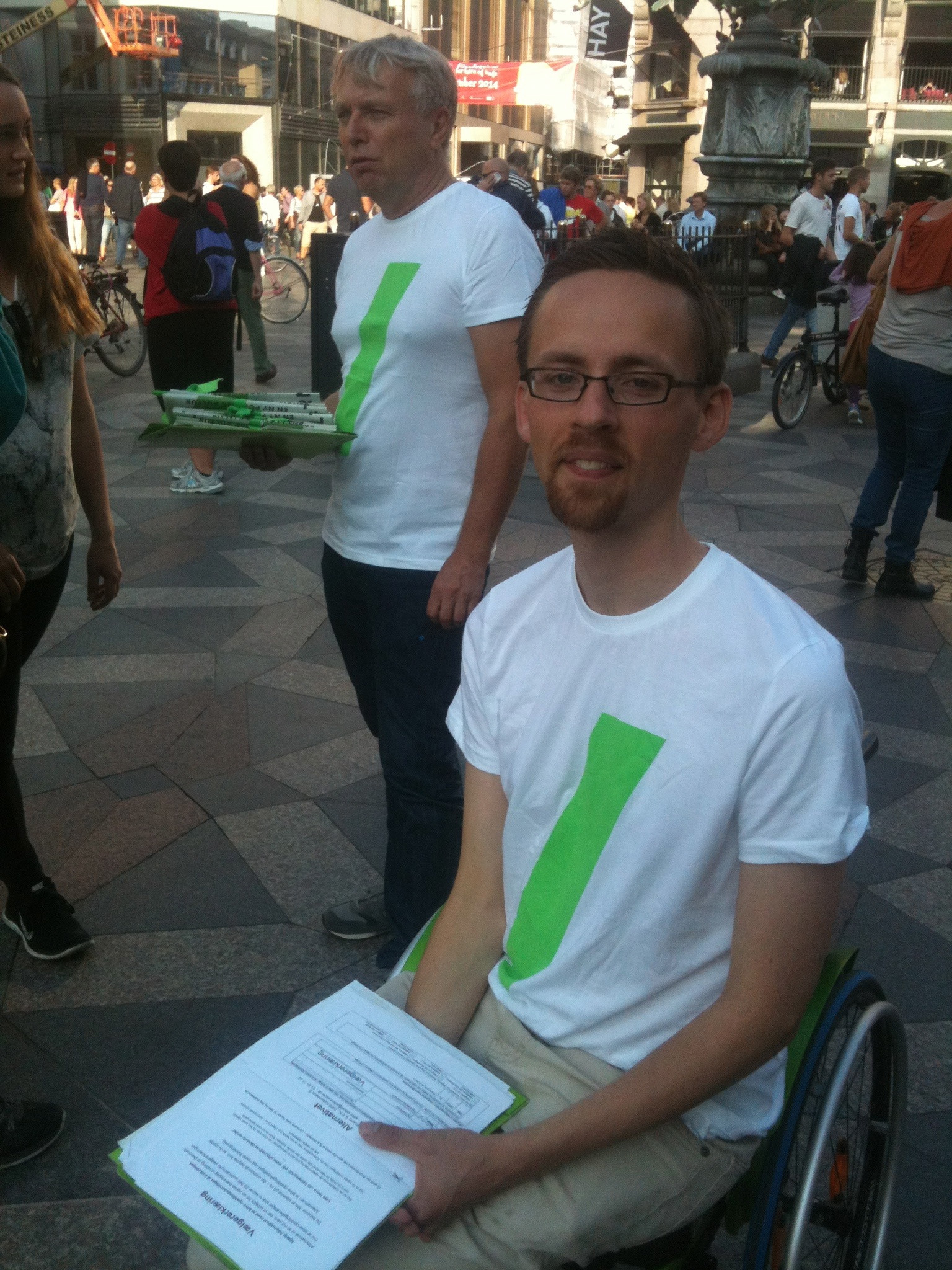 Top candidates for the Danish Political Party Alternativet Rune Peter Wingård (front) and Uffe Elbæk campaigning for electoral signatures at Storkespringvandet in Copenhagen september 19, 2014